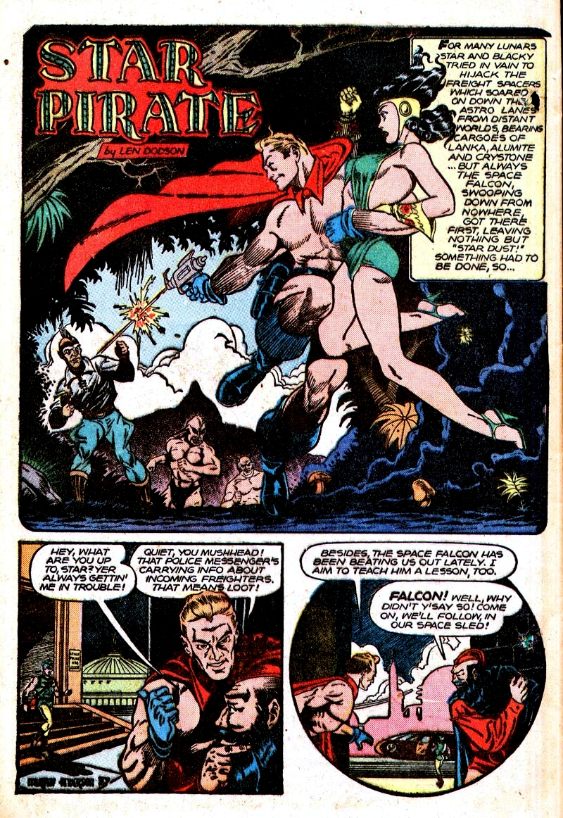 Page of Planet Comics #50 (September 1947) Fiction House (defunct co.)